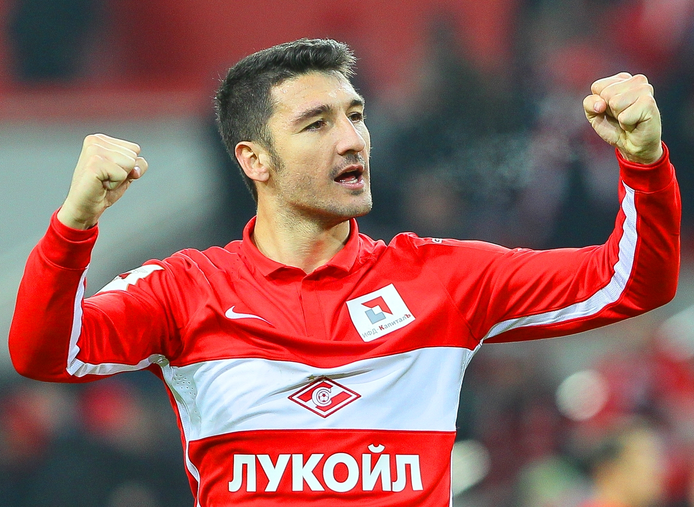 Salvatore Bocchetti